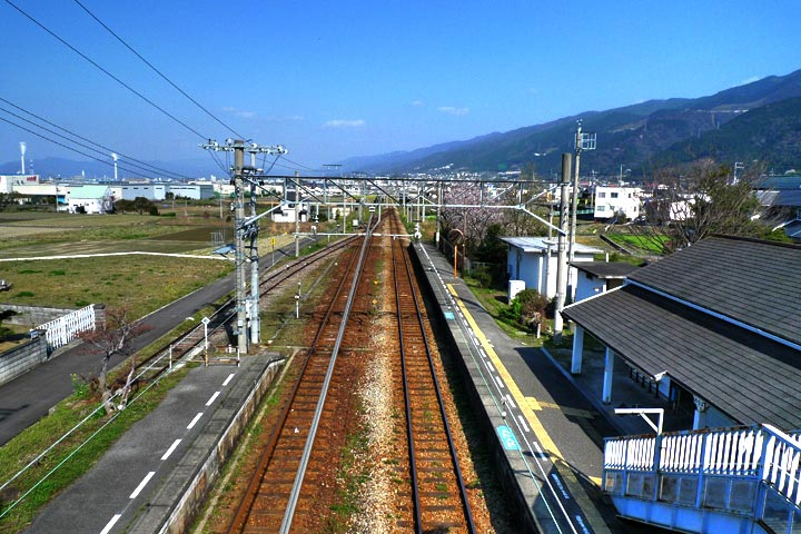 Iyo-Sangawa Station in Shikokuchūō, Ehime pref., Japan.